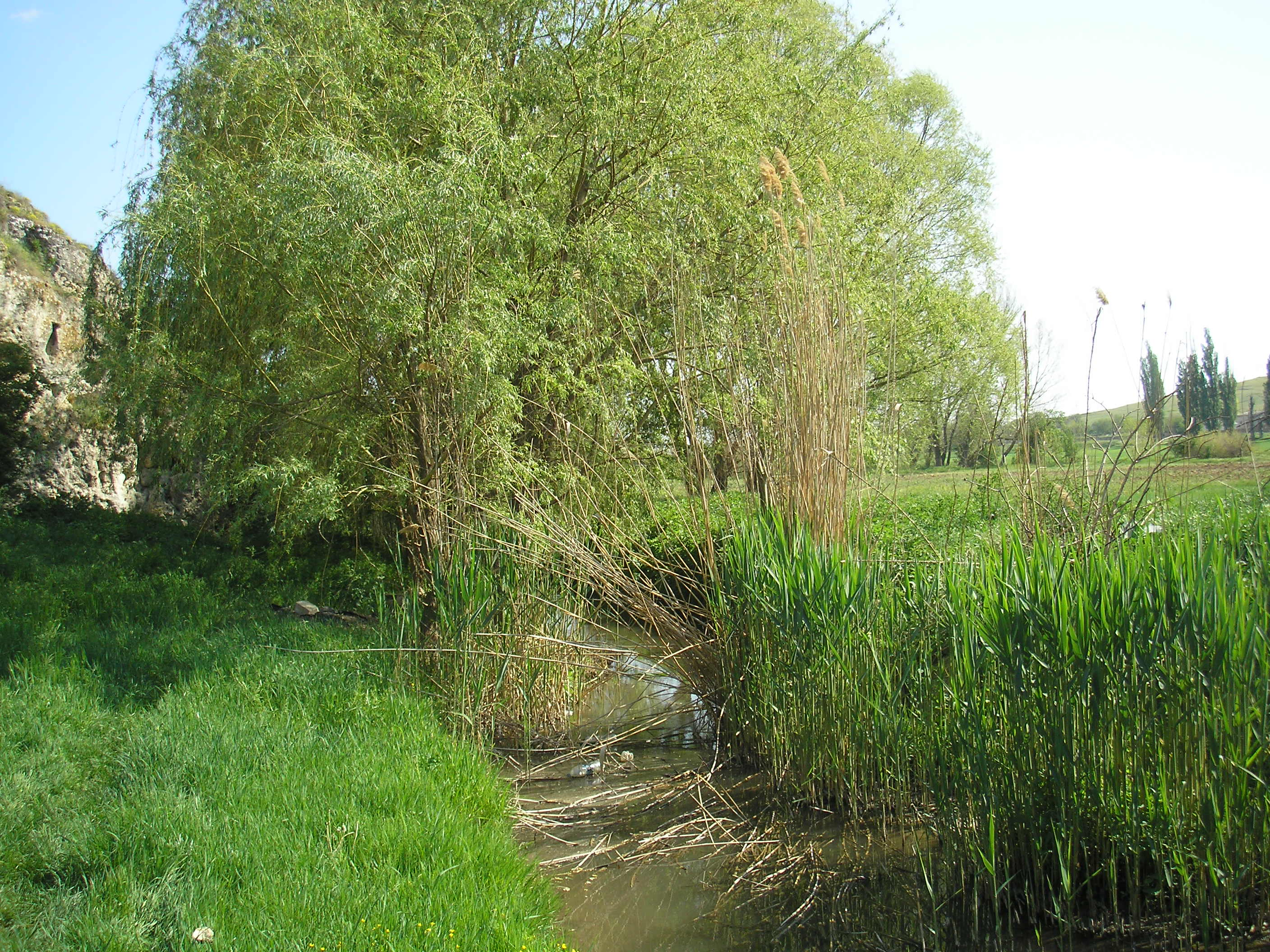 Zuyia River, Crimea.